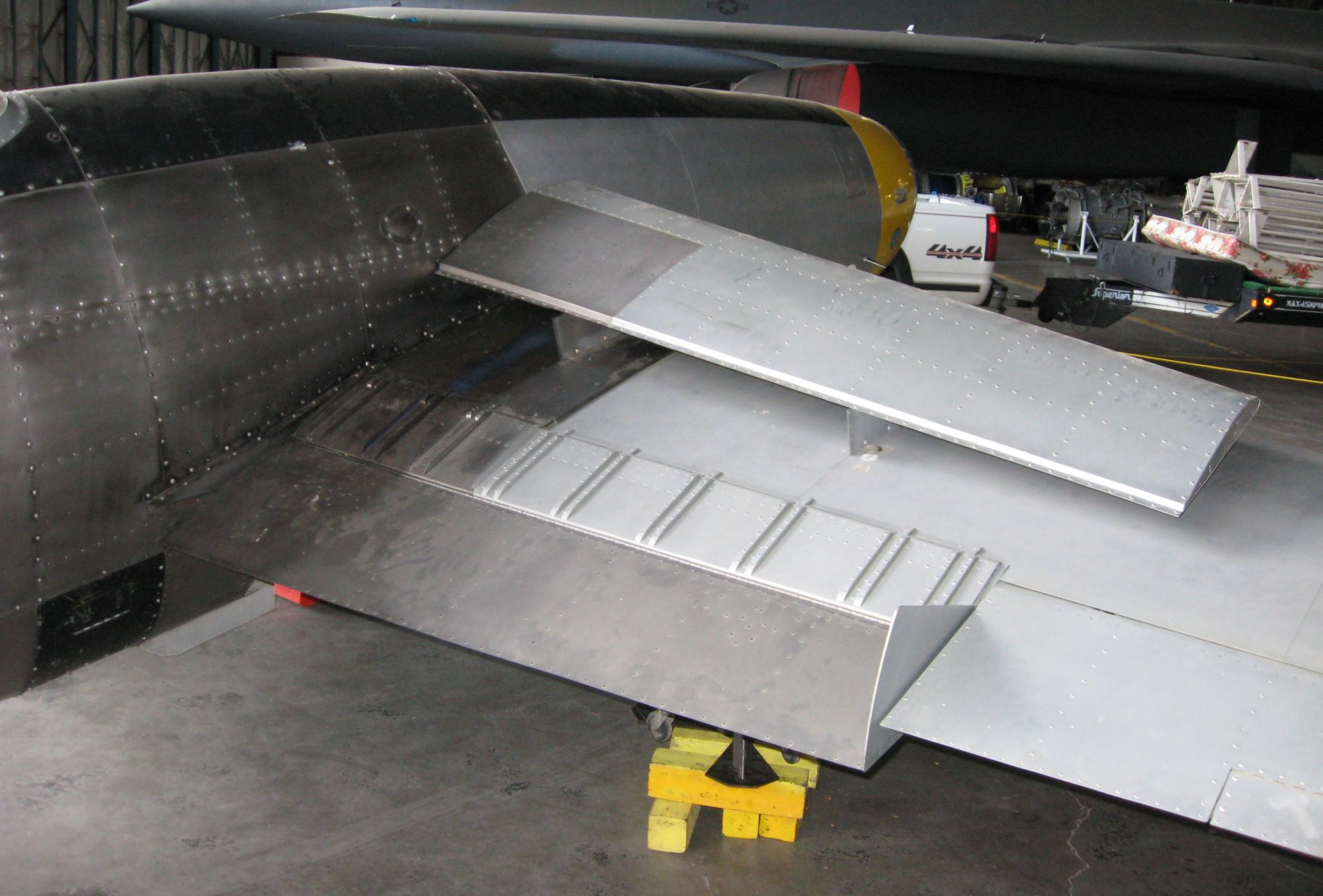 Ball-Bartoe Jetwing currently undergoing restoration at Wings Over the Rockies Air and Space Museum in Denver, CO. Augmentor detail.